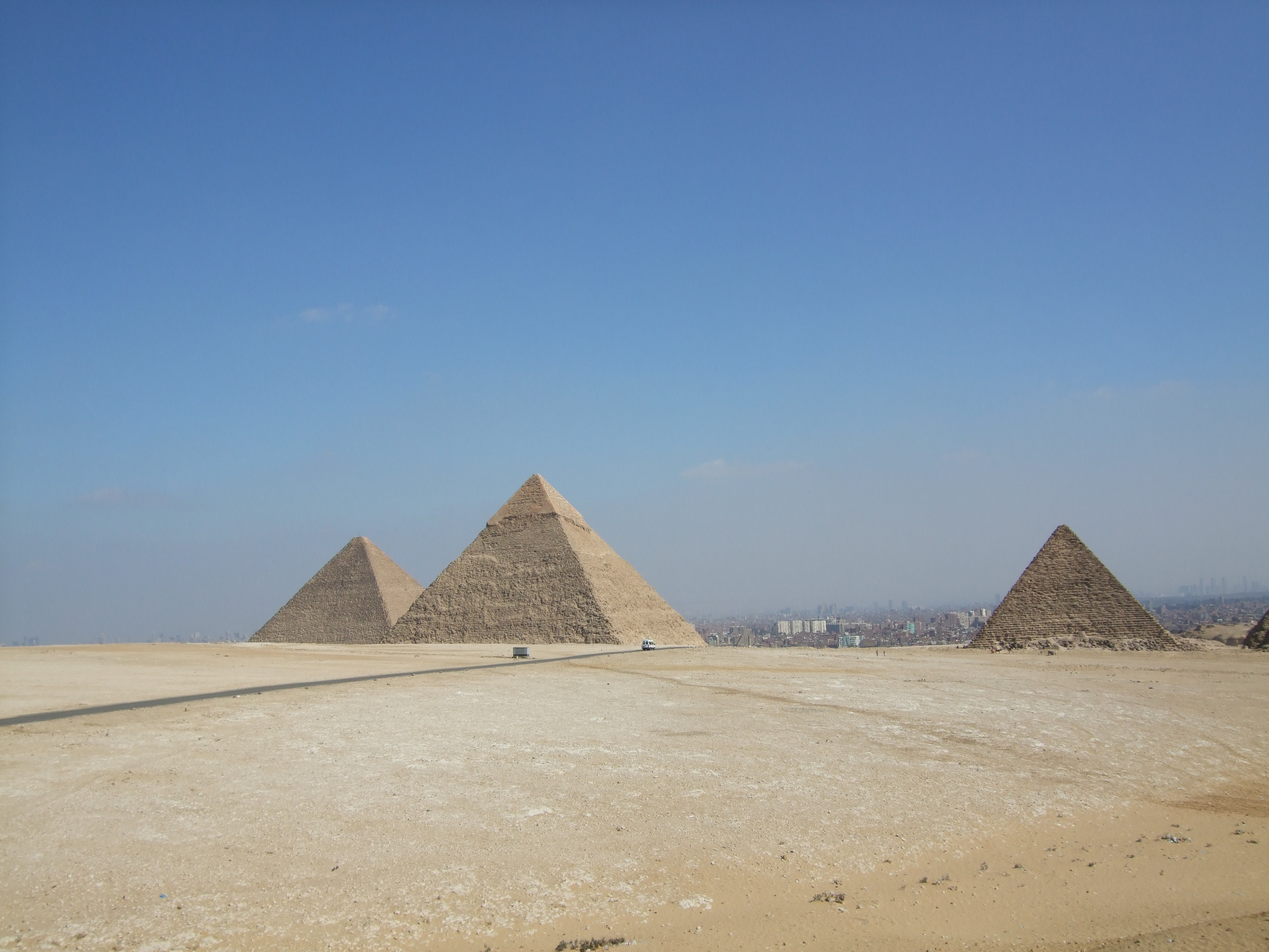 Picture of the pyramids of Giza, Cairo, Egypt